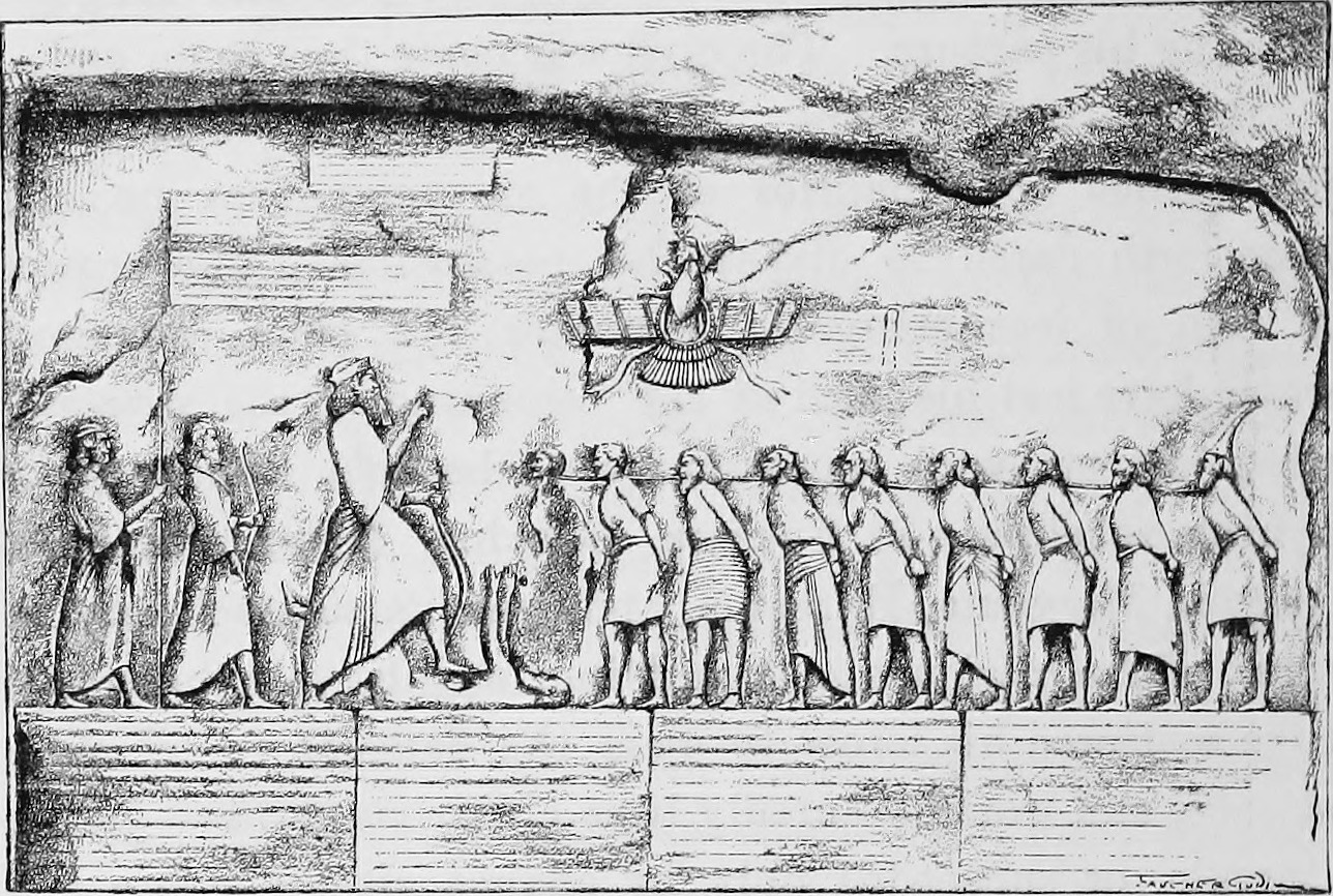 Title: History of Egypt, Chaldea, Syria, Babylonia and Assyria Year: 1903 (1900s) Authors: Maspero, G. (Gaston), 1846-1916 Sayce, A. H. (Archibald Henry), 1845-1933 Subjects: Civilization, Ancient History, Ancient Publisher: London : Grolier Society Text Appearing Before Image: assuredly have either succumbed in thestruggle, or succeeded only by chance after his fate hadtrembled in the balance for years. Darius, however, fromthe very beginning knew how to single out the importantpoints upon which to deal such vigorous blows as wouldensure him the victory with the least possible delay.He saw that Babylon, with its numerous population, itsimmense wealth and prestige, and its memory of recentsupremacy, was the real danger to his empire, and henever relaxed his hold on it until it was subdued, leavinghis generals to deal with the other nations, the Medesincluded, and satisfied if each of them could but hold his 174 THE IRANIAN CONQUEST adversary in check without gaining any decided advantageover him. The event justified his decision. When onceBabylon had fallen, the remaining rebels were no longera source of fear; to defeat Khshatrita was the work of afew weeks only, and the submission of the other provincesfollowed as a natural consequence on the ruin of Media. Text Appearing After Image: KEBELS BROUGHT TO DAEIDS BY AHUEA-MAZDA. After consummating his victories, Darius caused an in-scription in commemoration of them to be carved on therooks in the pass of Bagistana (Behistun), one of the mostfrequented routes leading from the basin of the Tigris tothe tableland of Iran. There his figure is still to be seen 1 Mention, of some new wars is made towards the end of the inscription,but the text here is so mutilated that the sense can no longer be easilydetermined. ^ This is the scene depicted on the rock of Behistun. THE PACIFICATION OP ASIA 175 standing, with his foot resting on the prostrate body of anenemy, and his hand raised in the attitude of one addressing